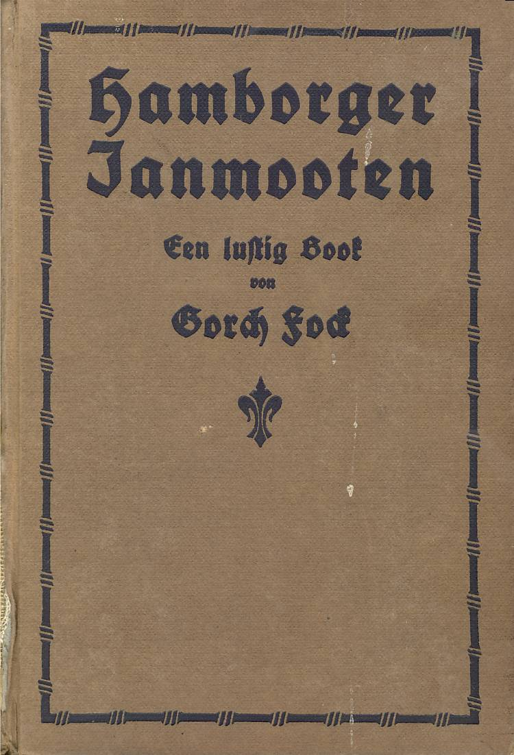 Frontcover of File:Hamborger Janmooten.djvu